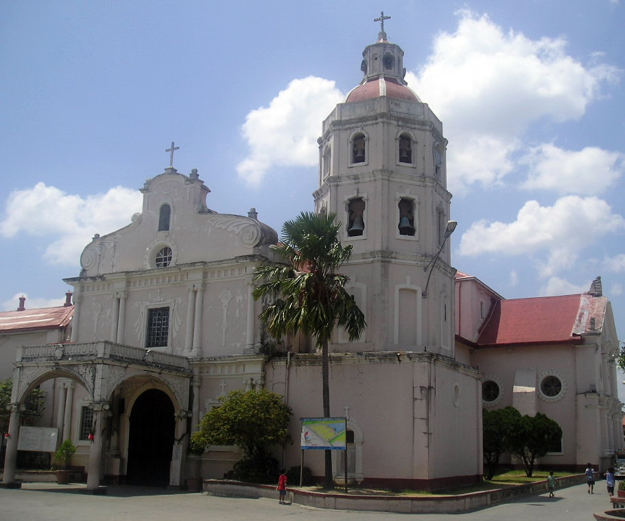 NCCA NATIONAL HERITAGE SITE. The present church was started to be built early in the 18th century and is the third structure since 1596. It underwent repairs in 1789, 1855, and lately in 1868 when the artistically painted ceilings were probably added. Olympus Camedia (SRI-Pilipinas and R1 Meetings, March 2005). Processed with Picasa.